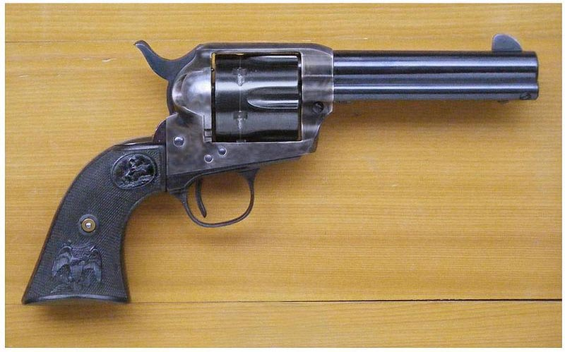 Original Colt made 1965 - cal .45 Colt